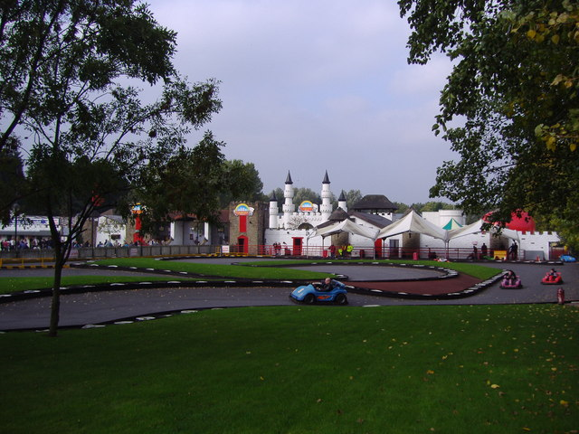 Camelot Theme Park The only Theme park in Europe specifically designed for 8-15 year olds.